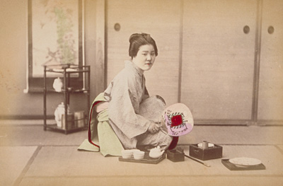 albumen tinted